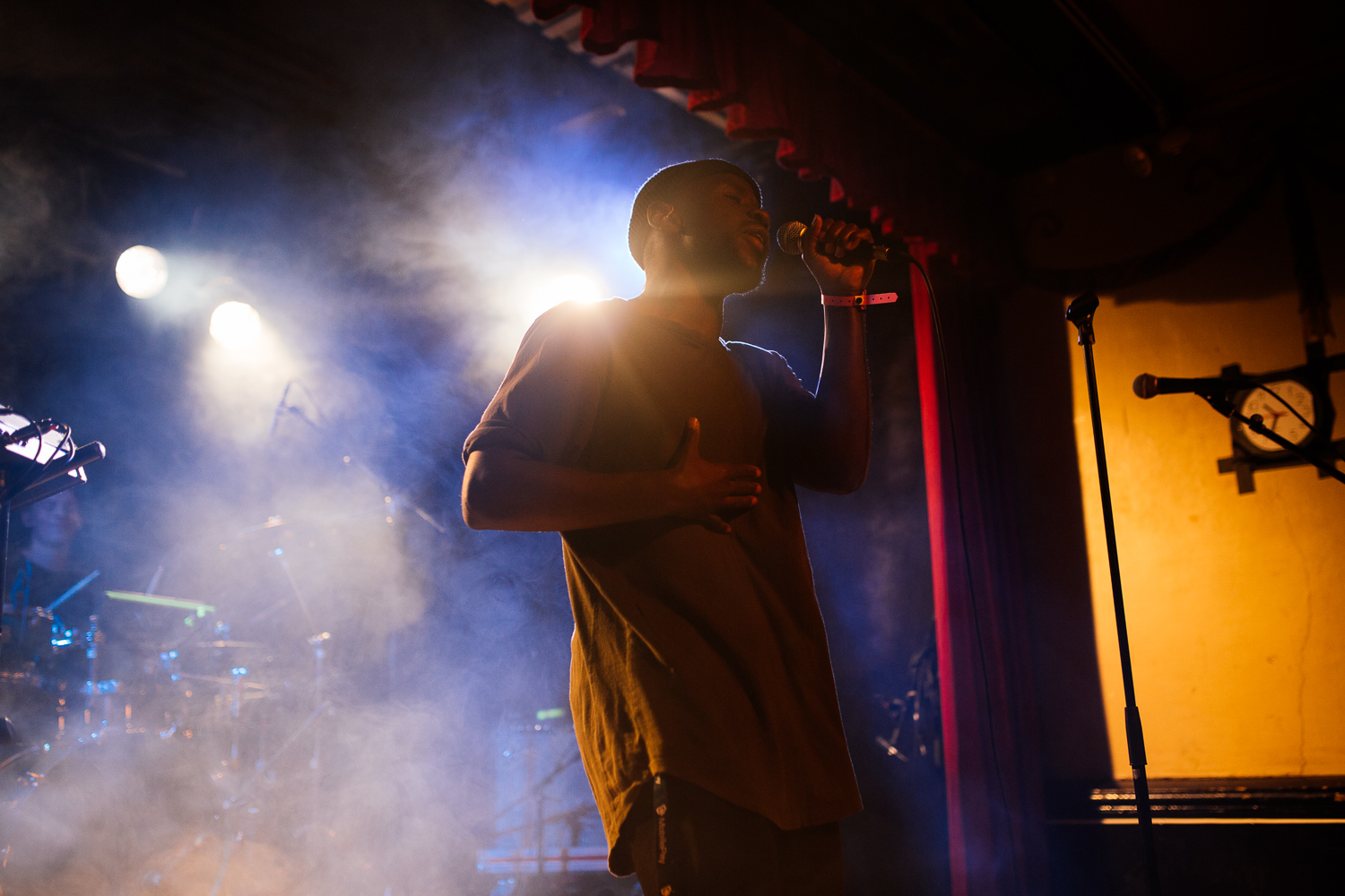 Mugisho performing at by:Larm